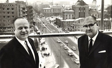 Photograph of the Finnish CEO Juhani Saraste (left) and politician Erkki Lindfors in Tampere.